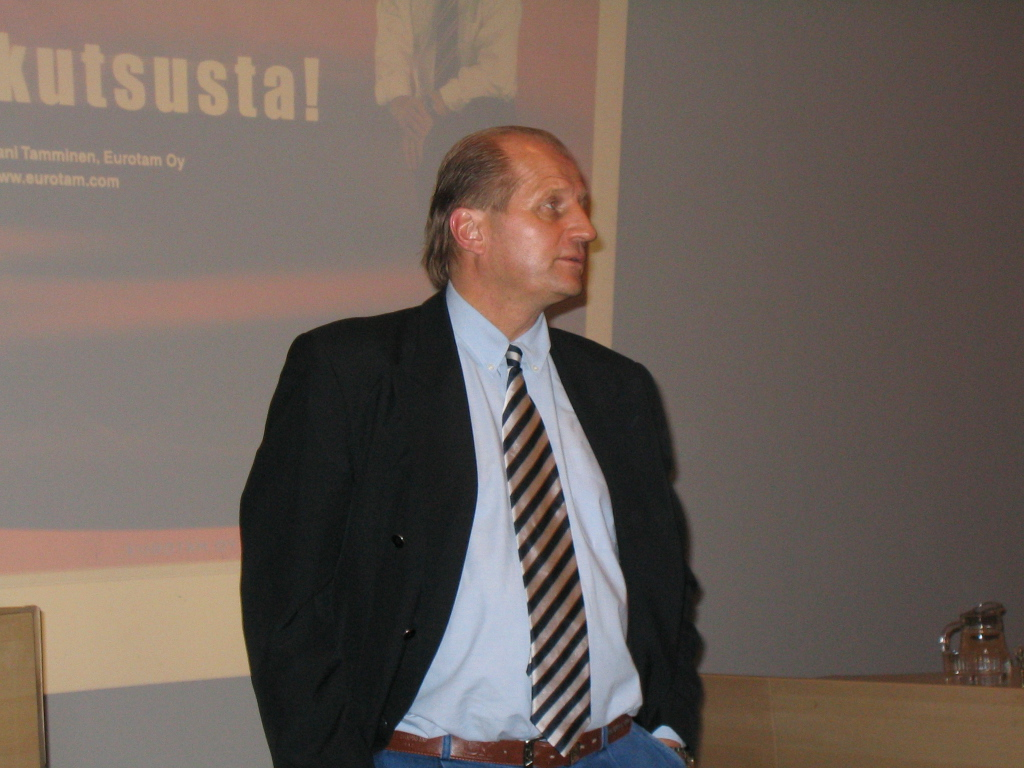 Finnish ice hockey trainer Juhani Tamminen. Photo by uploader.